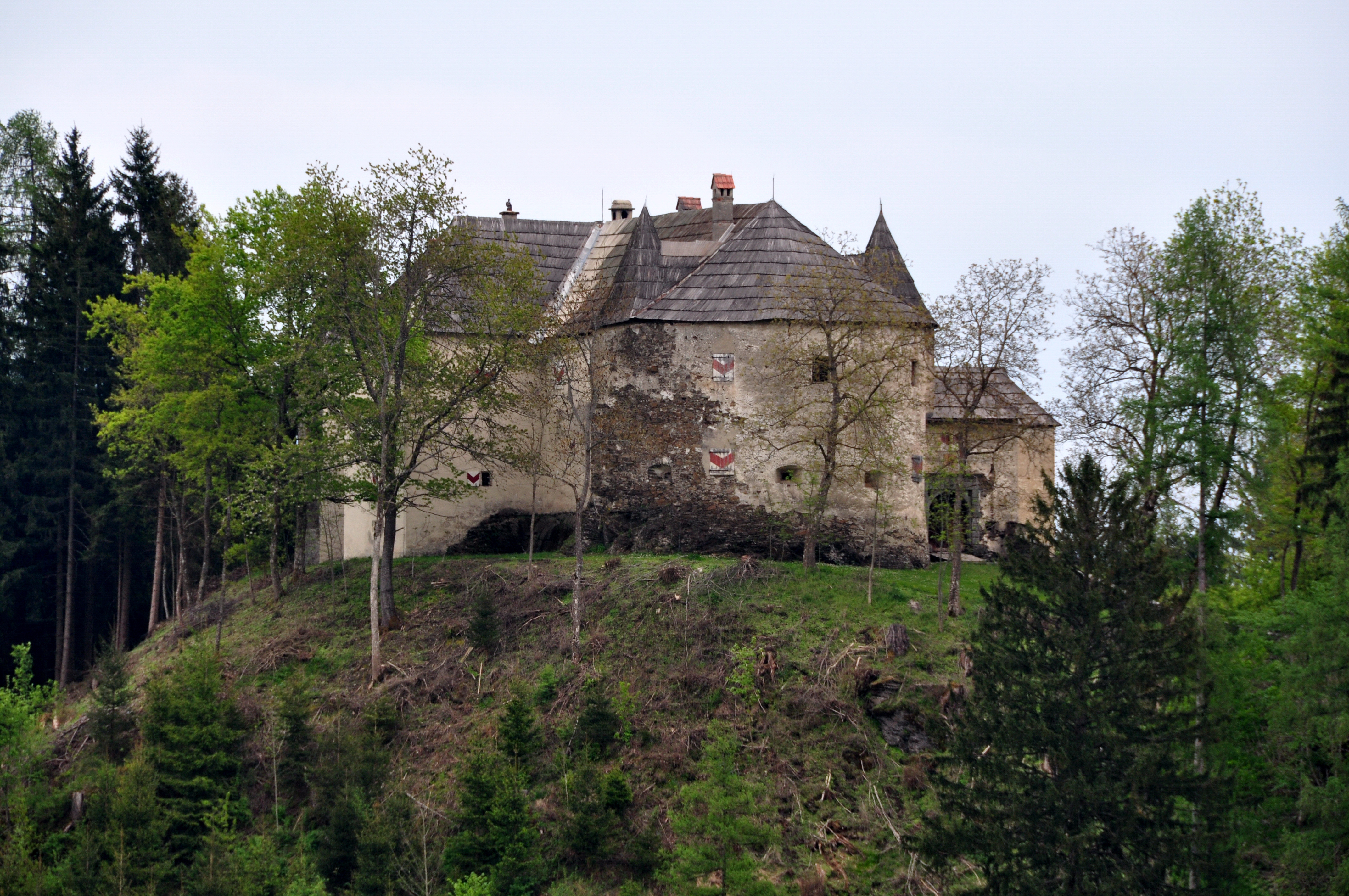 Castle Hohenstein in Hohenstein #1, market town Liebenfels, district Saint Veit on the Glan, Carinthia, Austria, EU